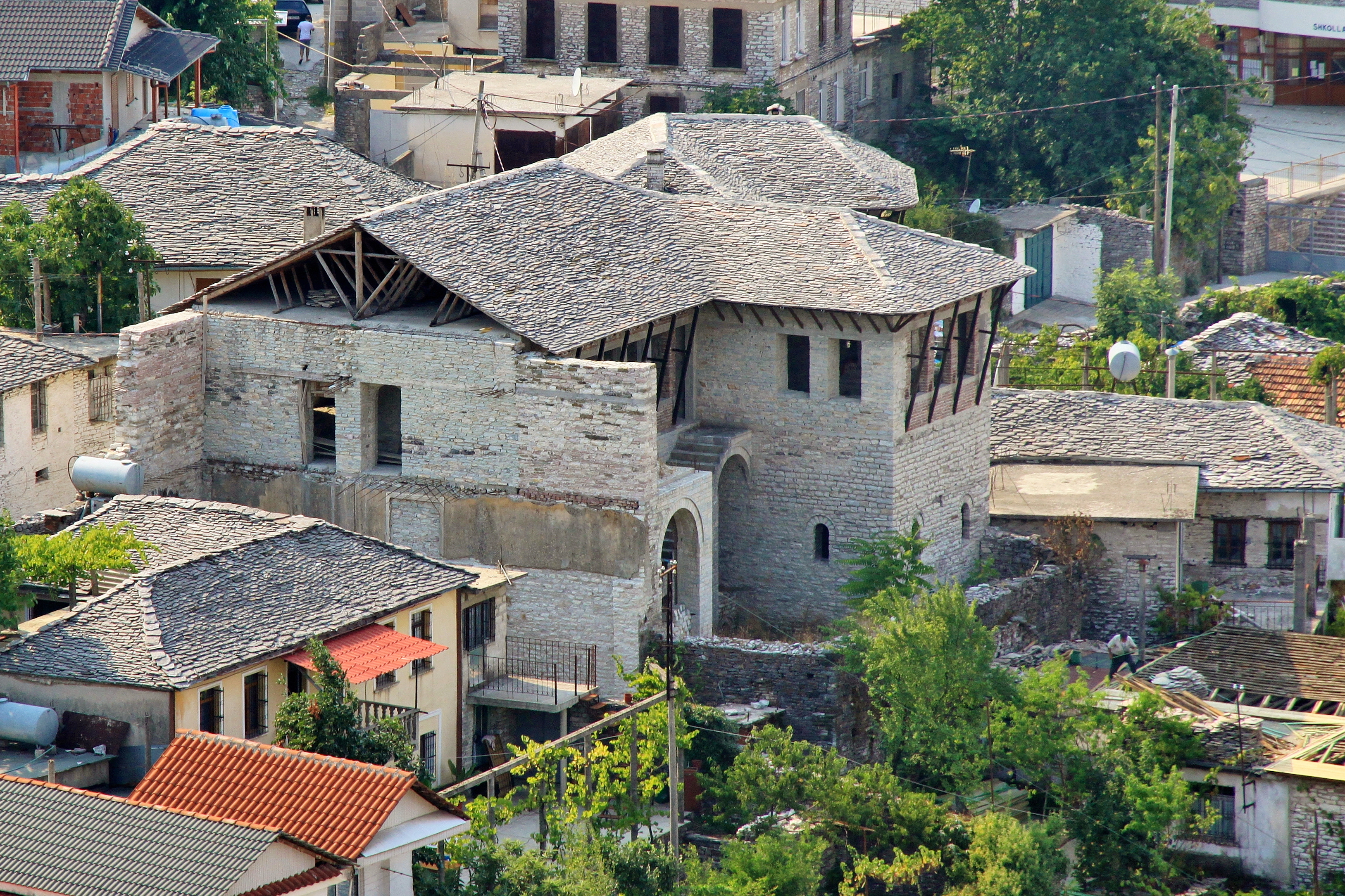 The former family house of Ismail Kadare, Gjirokastër, Gjirokastër County, Albania.